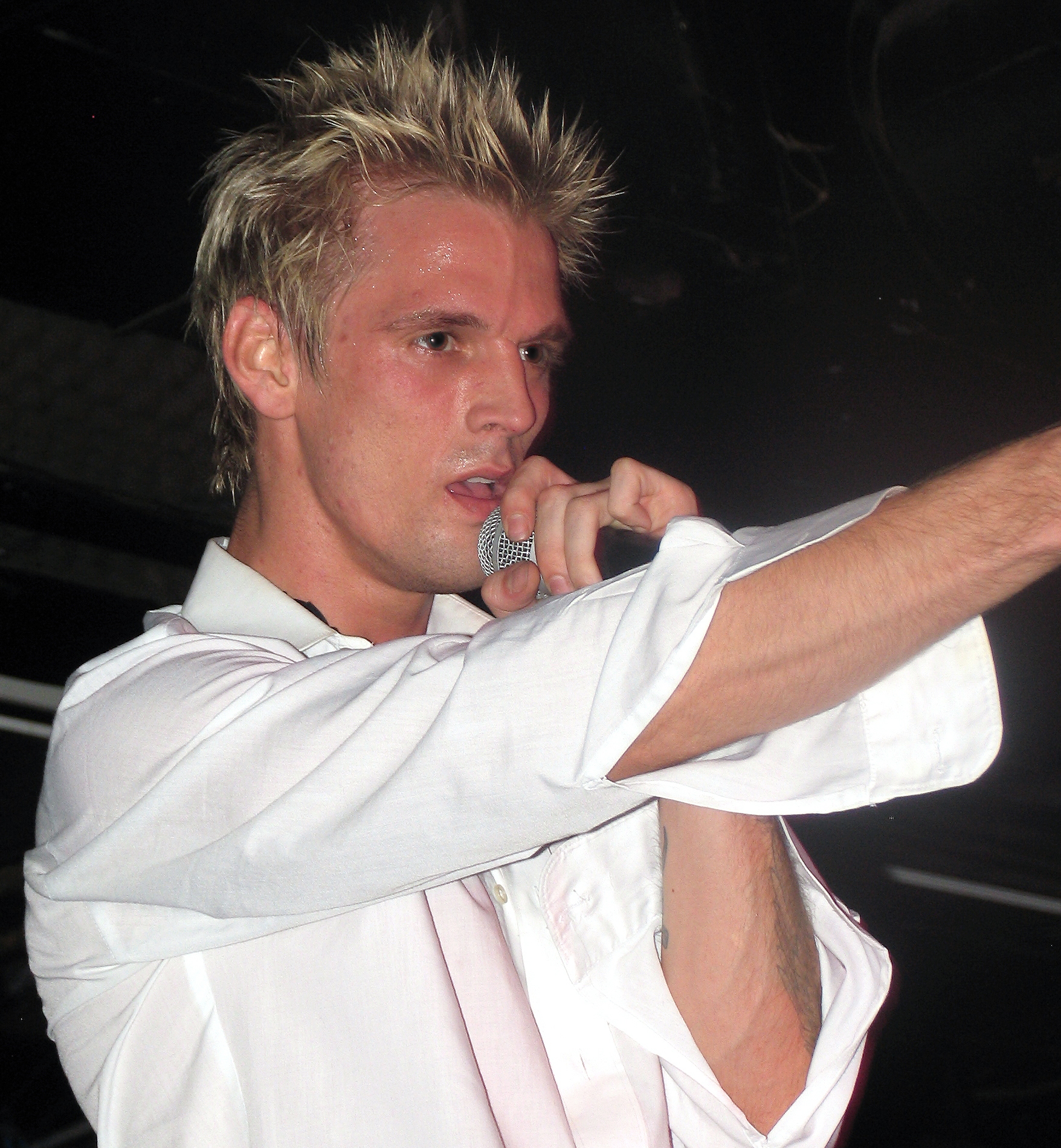 Paparazzo Presents...Aaron Carter's return to the stage on July 30, 2010 in Farmingdale, Long Island, NY.